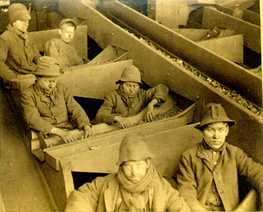 Breaker boys, Eagle Hill colliery, eastern PA